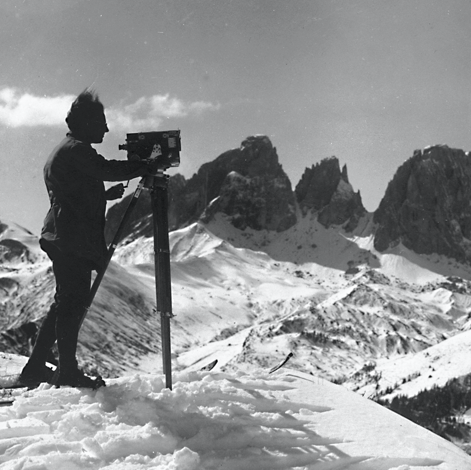 The German filmmaker Arnold Fanck (1889–1974) filming at Sellapass in Switzerland, presumably for his film The Holy Mountain. The film camera shown may be the Lyta camera by Lytax-Werke of Apparatebau Freiburg G.m.b.H. in Freiburg im Breisgau, a development which Fanck had suggested.